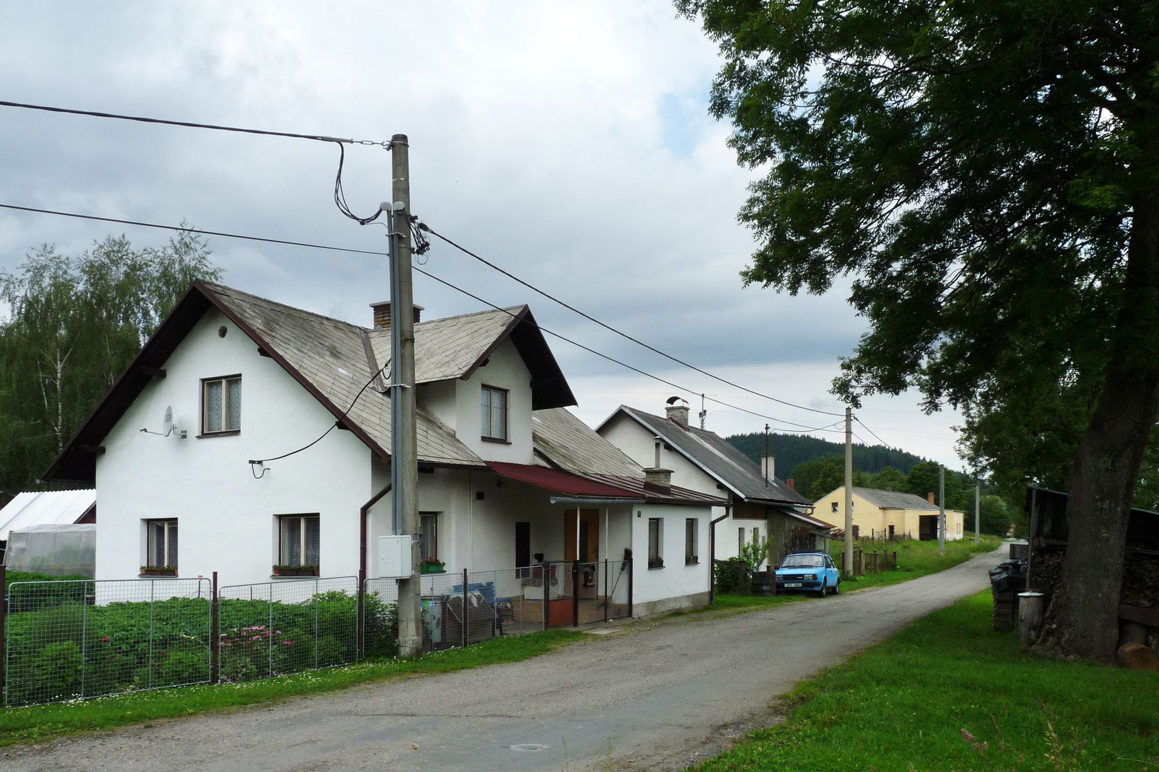 House No 55 in the village of Štěpanice, part of the town of Hartmanice, Klatovy District, Plzeň Region, Czech Republic.